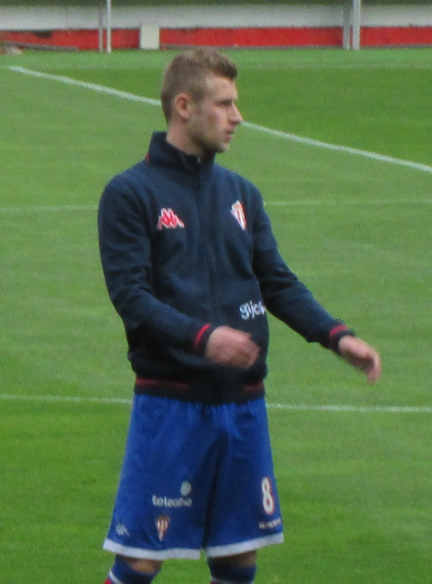 Álex Barrera, before a game for Sporting Gijón.